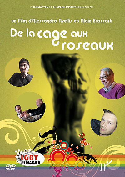 DE LA CAGE AUX ROSEAUX